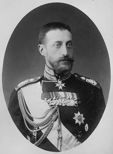 Grand Duke Constantine Constantinovich of Russia